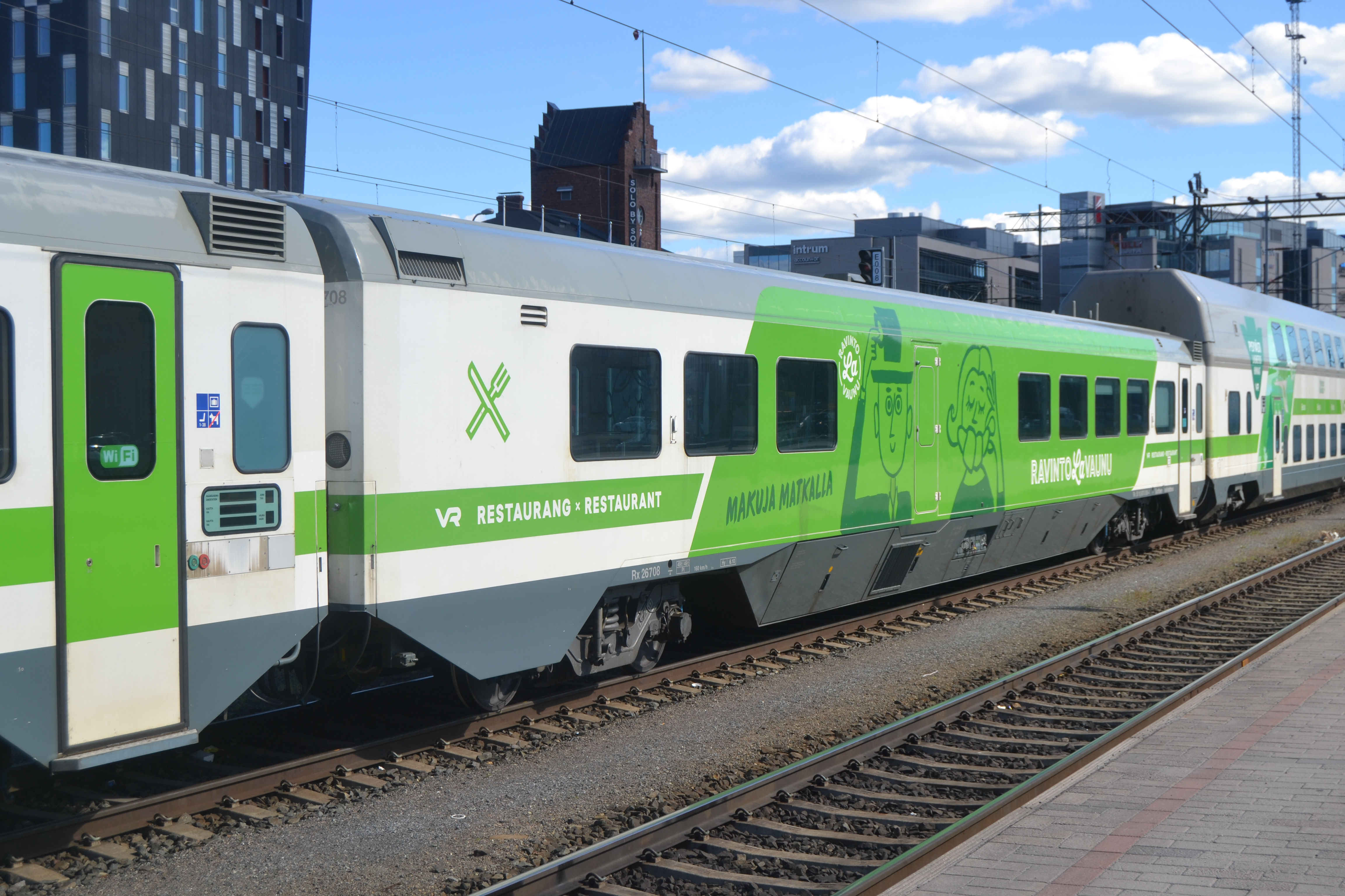 Rx 26708 dining car at Tampere railway station, Finland